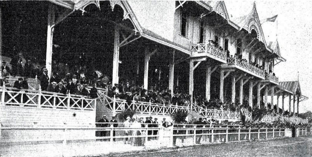 The Estadio GEBA grandstands during the Argentina v. Uruguay match of Copa Premier Honor Argentino ("Gran Premio de Honor del Ministerio de Justicia" according to source, in Spanish.